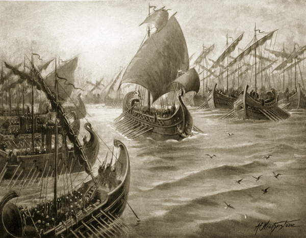 Cimon takes command of the Greek Fleet, illustration from 'Hutchinson's History of the Nations', 1915